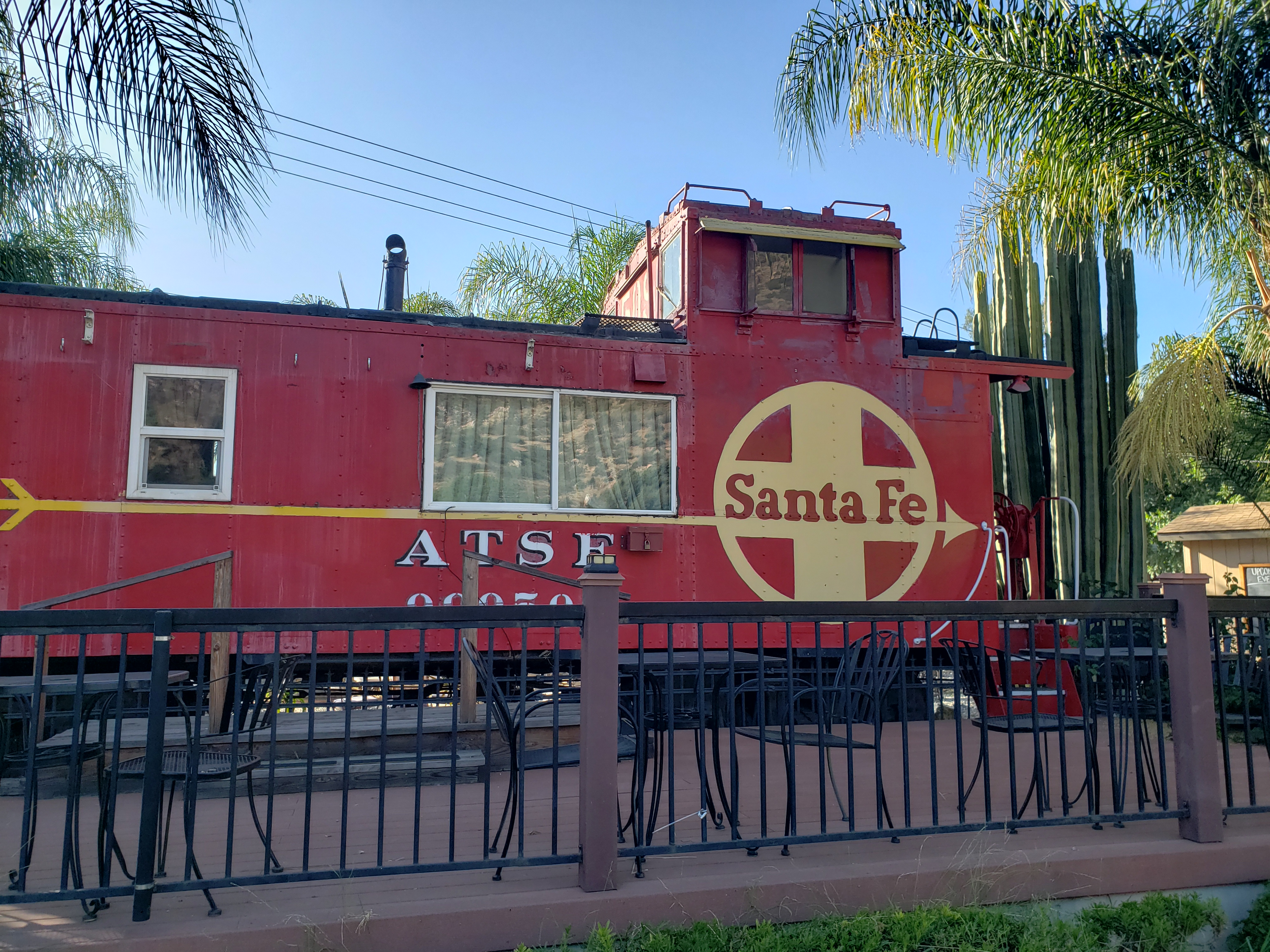 Flynn Springs caboose